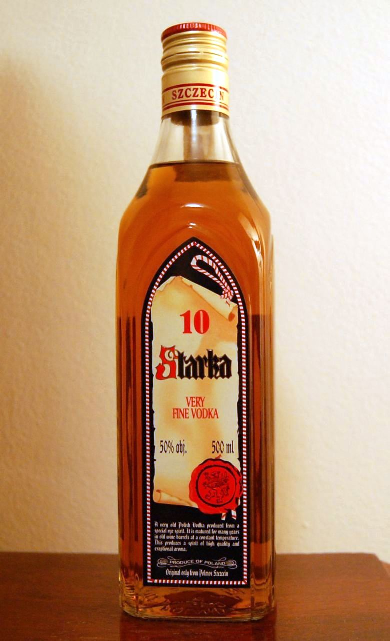 Polish old vodka Starka.